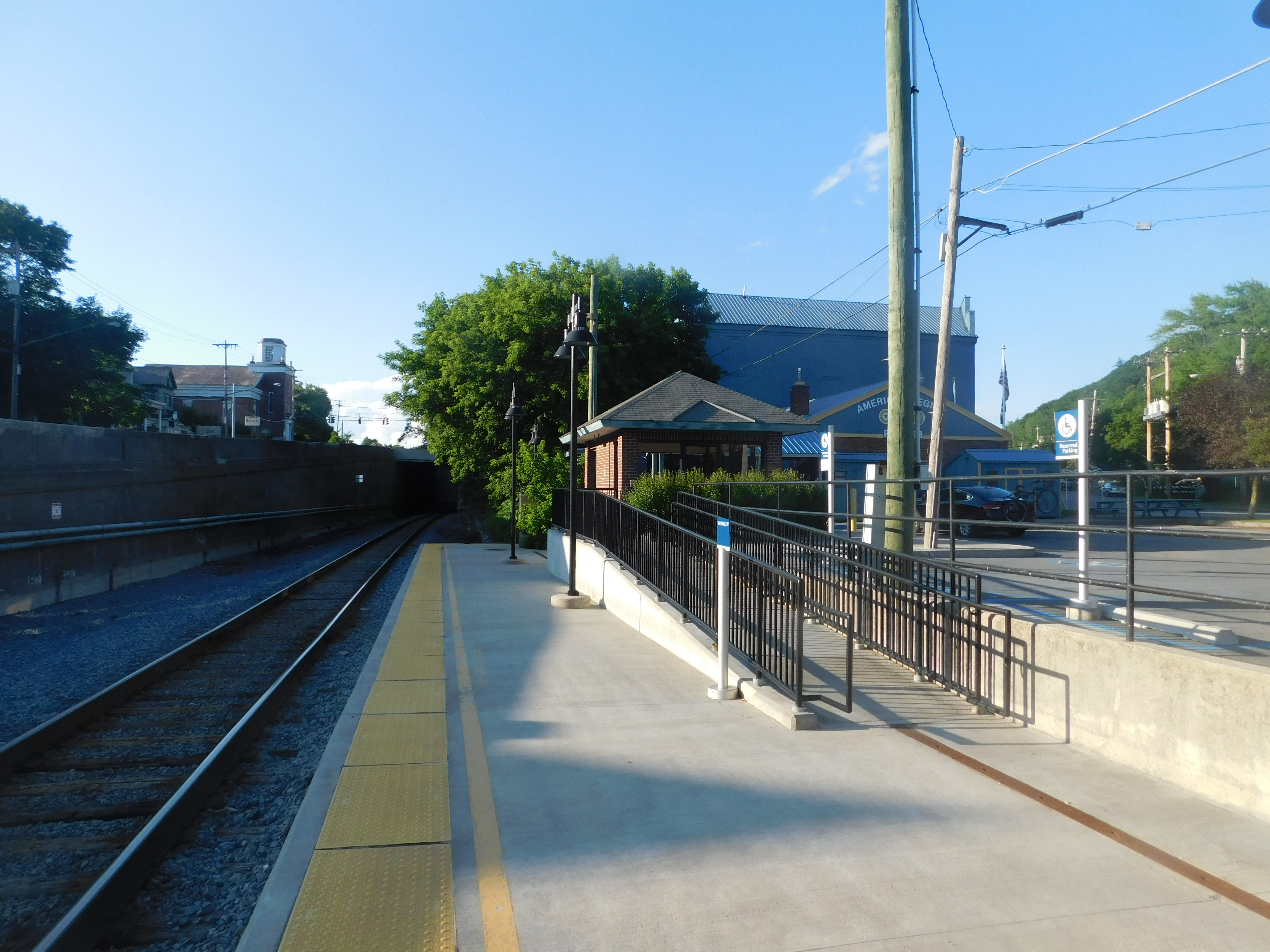 The reconstructed Whitehall station for Amtrak in Whitehall, New York.